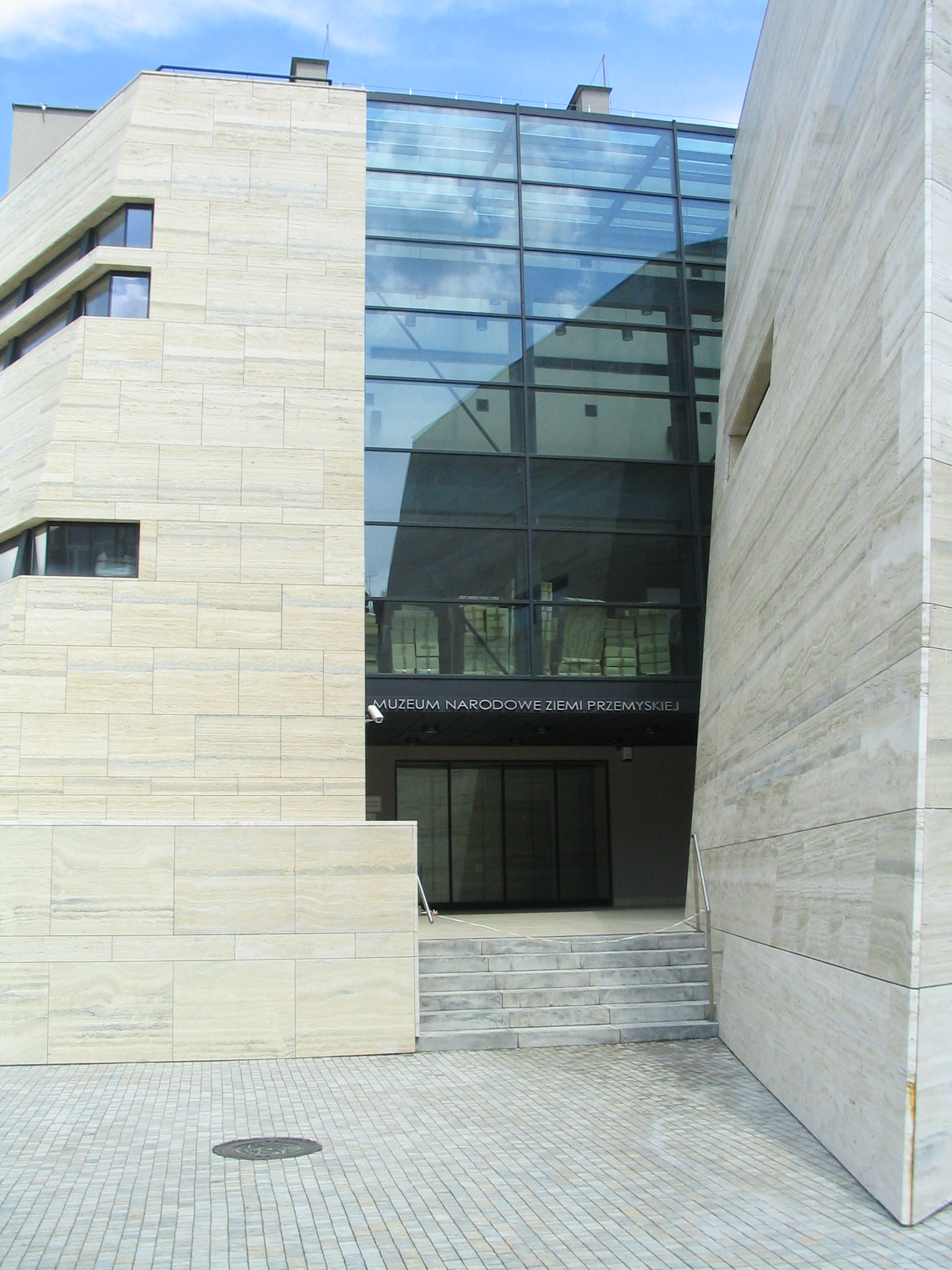 The National Museum Branch in Przemyśl